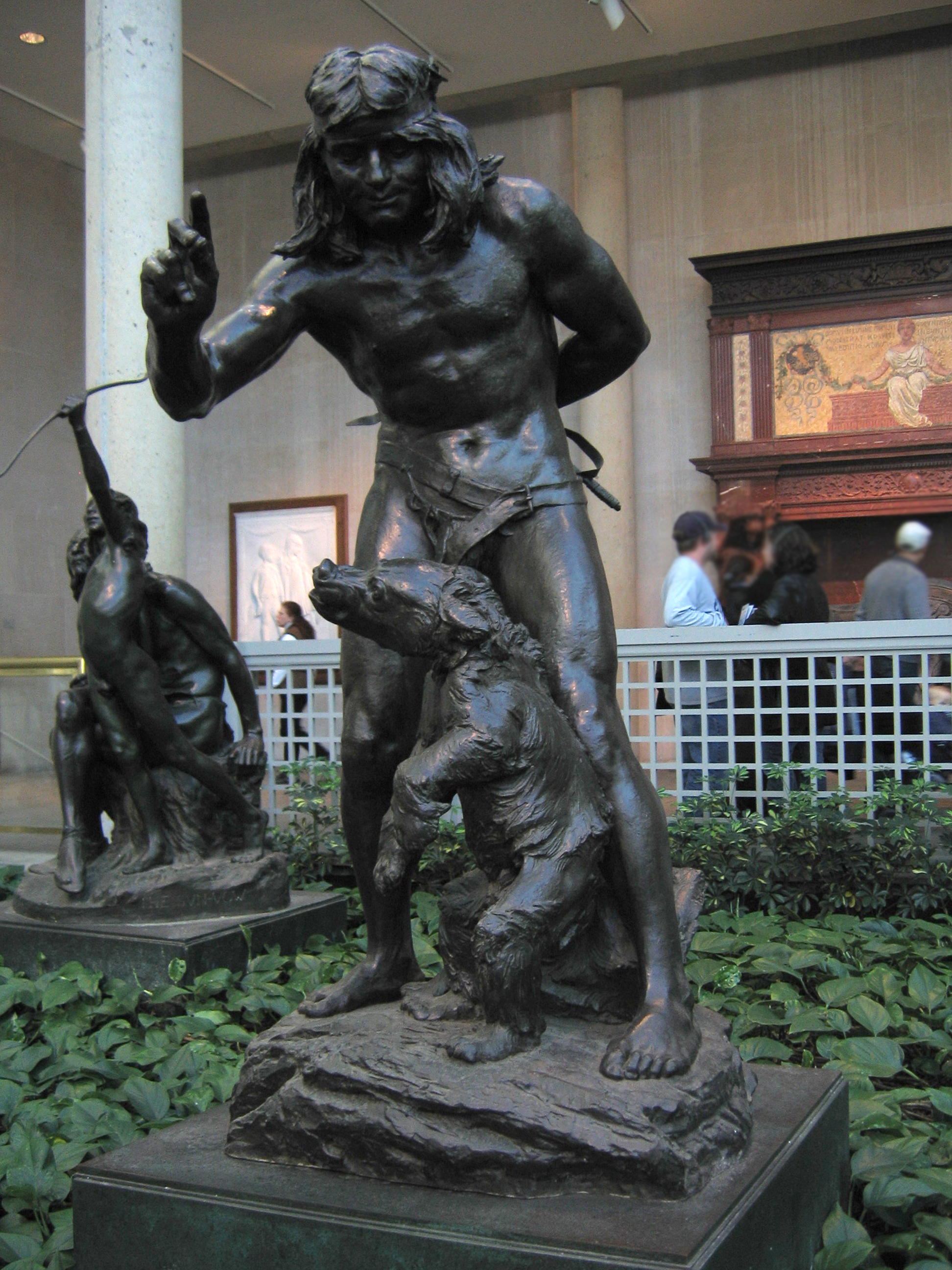 Bohemian Bear Tamer, 1887; this cast, 1888. Paul Wayland Bartlett (1865 - 1925). Bronze, Metropolitan Museum of Art, New York City. Kemeys' signature is visible on the sculpture's base in the bottom left corner of the photograph.